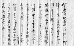 Letter of Na Hye-sok, 1931.11